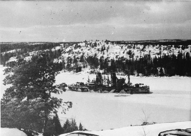 Icebreaker Tarmo in camouflage during World War II. Photo taken in 1939 at Saggö, Saltvik, Åland Islands. This photograph is in the public domain in Finland, because either a period of 50 years has elapsed from the year of creation or the photograph was first published before 1966. The §49a of the Finnish copyright law of 2005 specifies that photographs not considered to be "works of art" become public domain 50 years after they were created. The 50 years from creation protection period came into force in 1991. Before that the protection period was 25 years from the year of first publication according to the §16 of the law of protection of photographs of 1961. Material already released to public domain according to the 1961 law remains in public domain, and therefore all photographs (but not photographic works of art) released before 1966 are in the public domain. See Commons:Copyright_rules_by_territory#Finland for details. If you think this picture should be considered a work of art, nominate it for deletion. To uploader: Please provide where the image was first published and who created it.The material with this copyright tag should not be used on the German-language Wikipedia. See Talk page of this template.